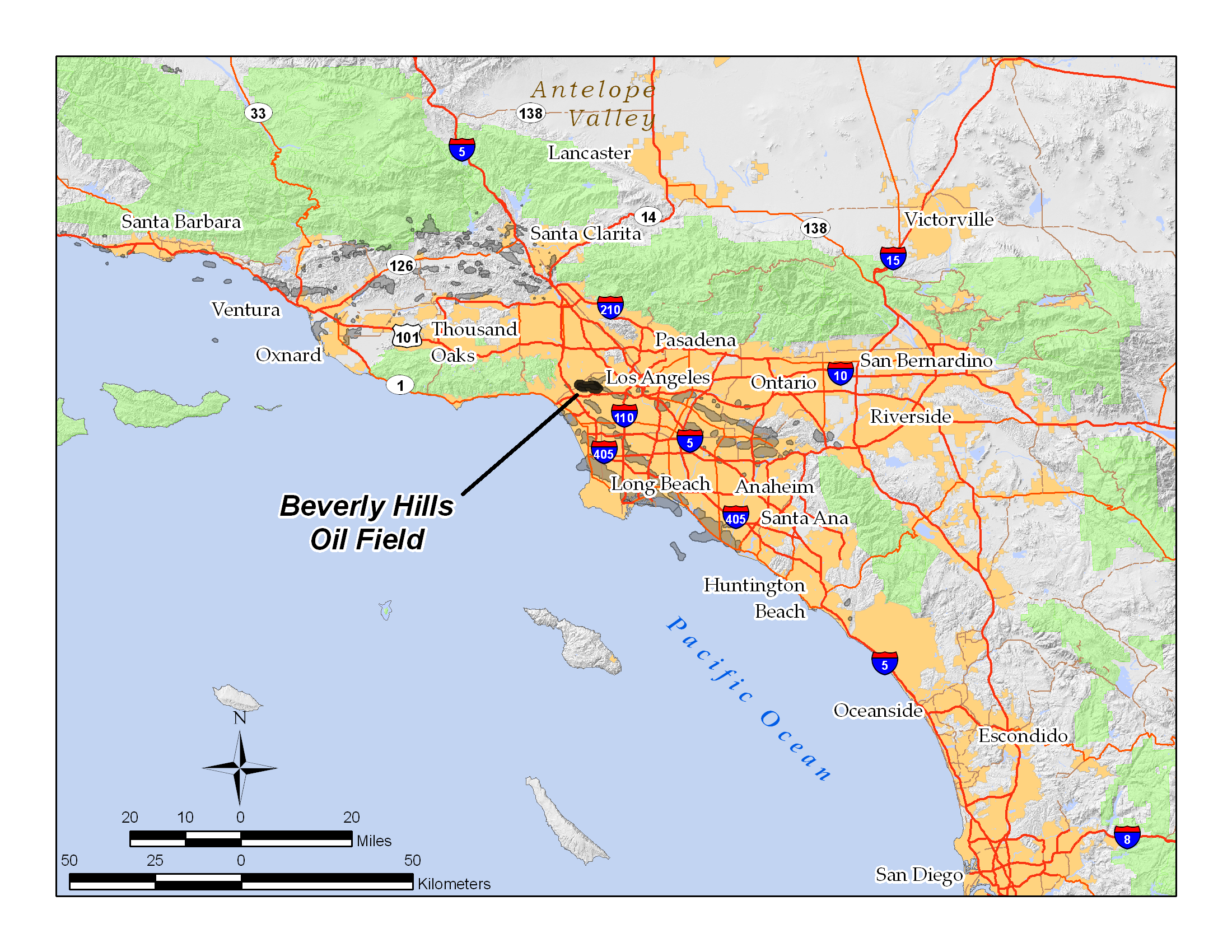 Location of the Beverly Hills Oil Field in Beverly Hills, Los Angeles County. Also showing major cities, roads, and terrain in adjacent Southern California.